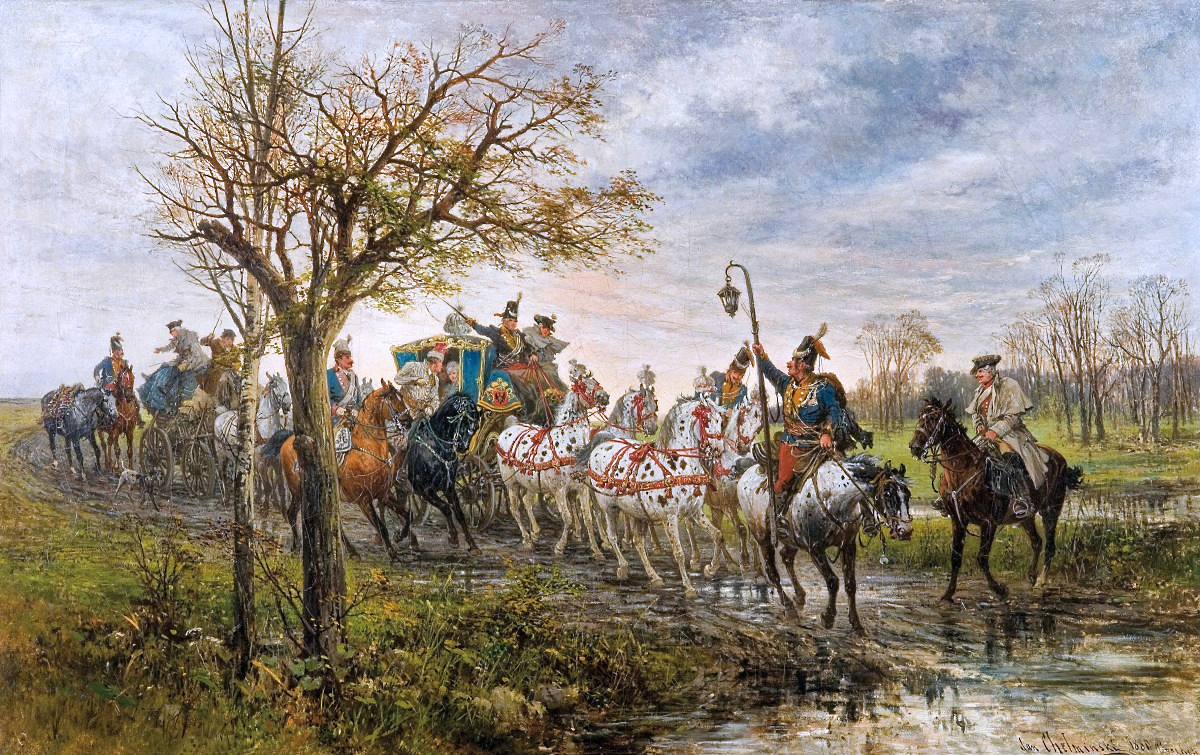 Court of the Polish Lord during the journey in times of Augustus III the Saxon